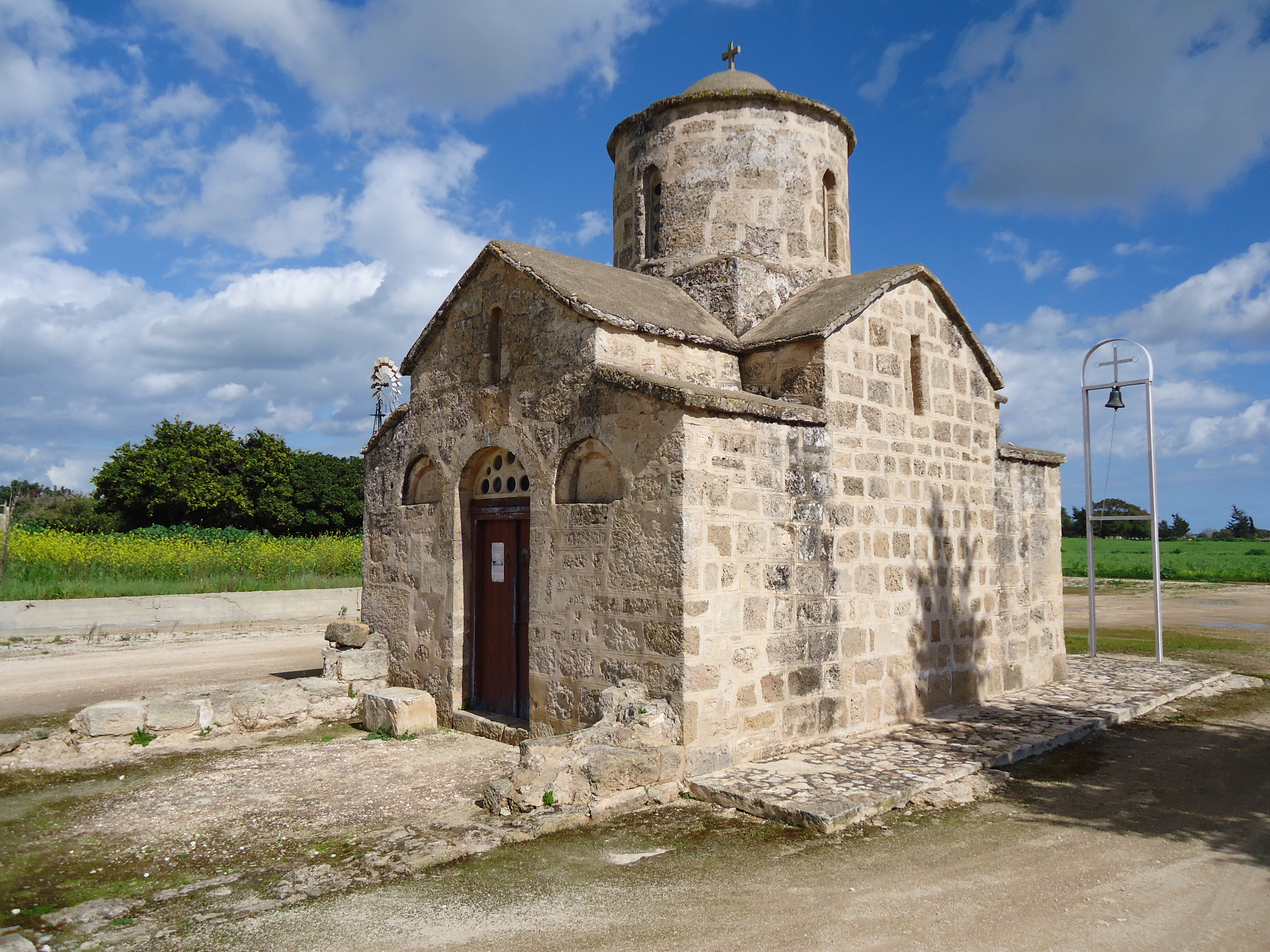 the church